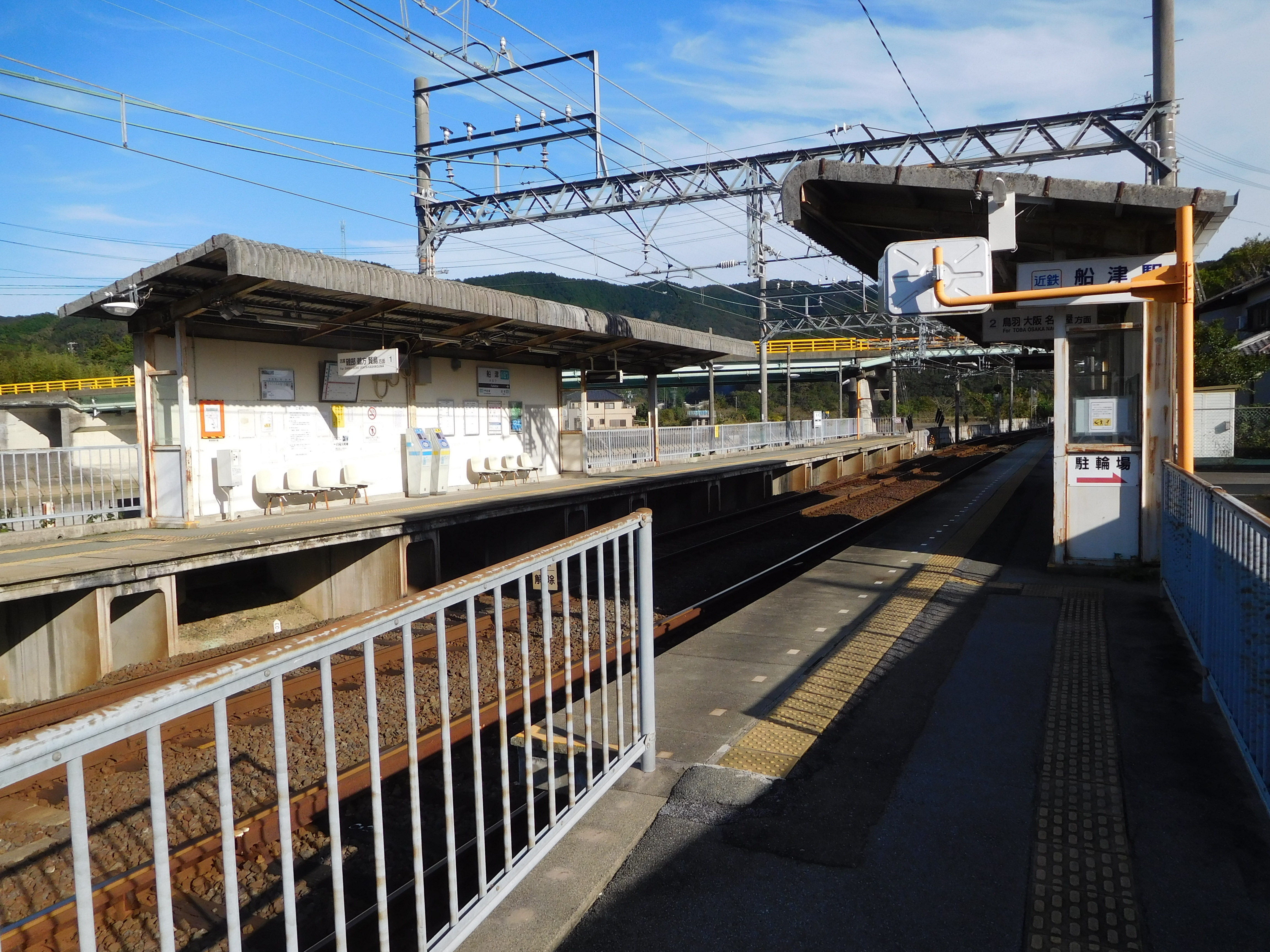 This is an entrance of Kintetsu Shima Line Funatsu Station in Toba, Mie, Japan.